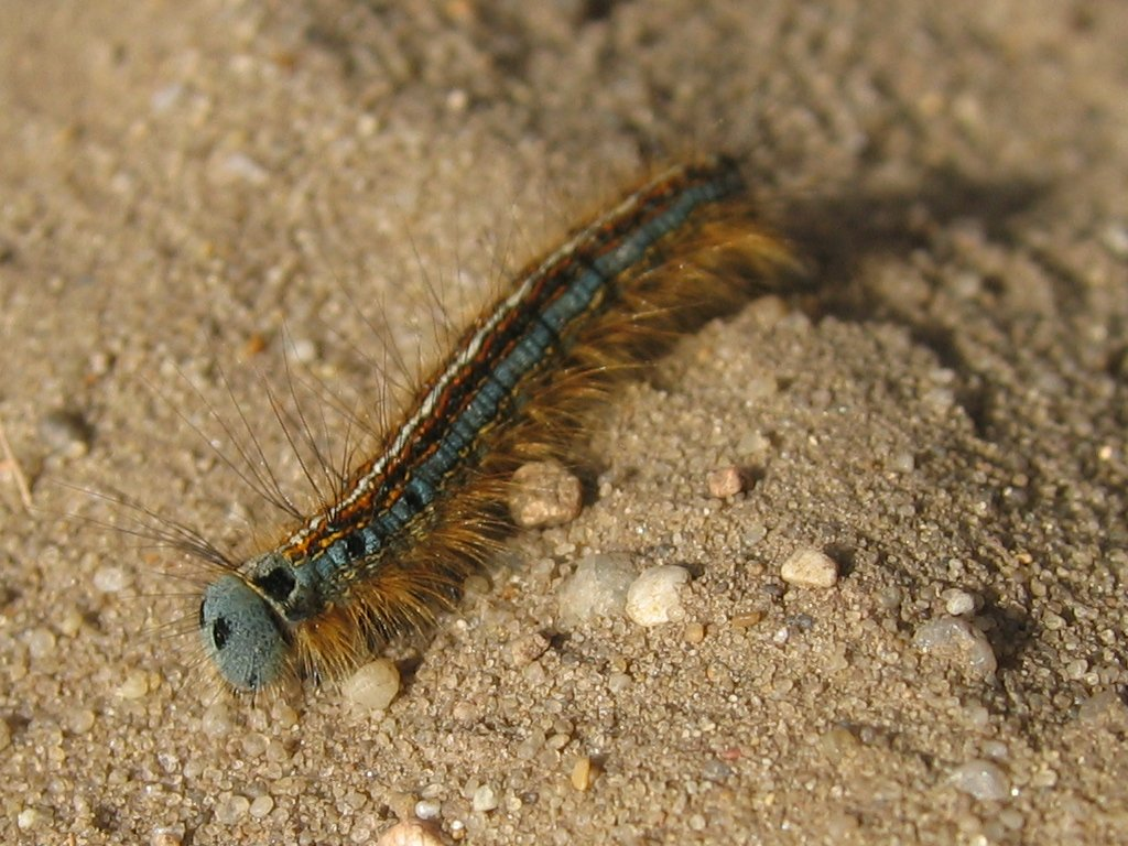 Insecta found on the "balloerveld", a sand/heathfield in the Netherlands. Other photo are available (on request) from other angles, but those are the best pictures overall When you know what species those are, please rename the pictures or re-upload them under a correct name and in the correct category. Caterpillar Malacosoma neustria (Linnaeus, 1758).